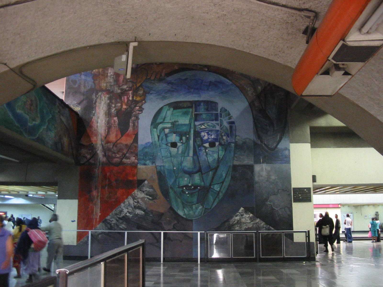 View of Mask Mural in the Line 1 section of Metro Tacubaya Principle artist, Guillermo Ceniceros Reyes with help from Màximo Chavez, Raymundo Rojas, Armando Lopez, Emilio Grave, Miguel Ortega and Hector Felipe